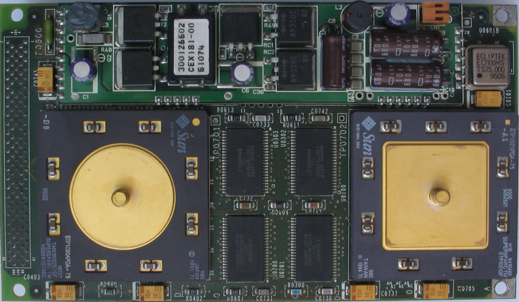 SuperSparc II processor board SM71 without heat sink